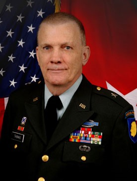 Head shot of Major General Randal E. Thomas provided by the United States National Gaurd at this link